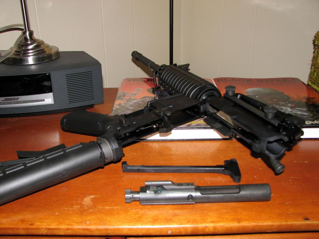 Broken down for cleaning. You see the bolt carrier assembly and the charging handle on the desk. The bolt carrier assembly breaks down further, but I wasn't going to do that just to take pictures.